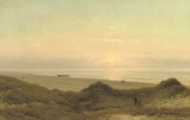 On the beach at sunset